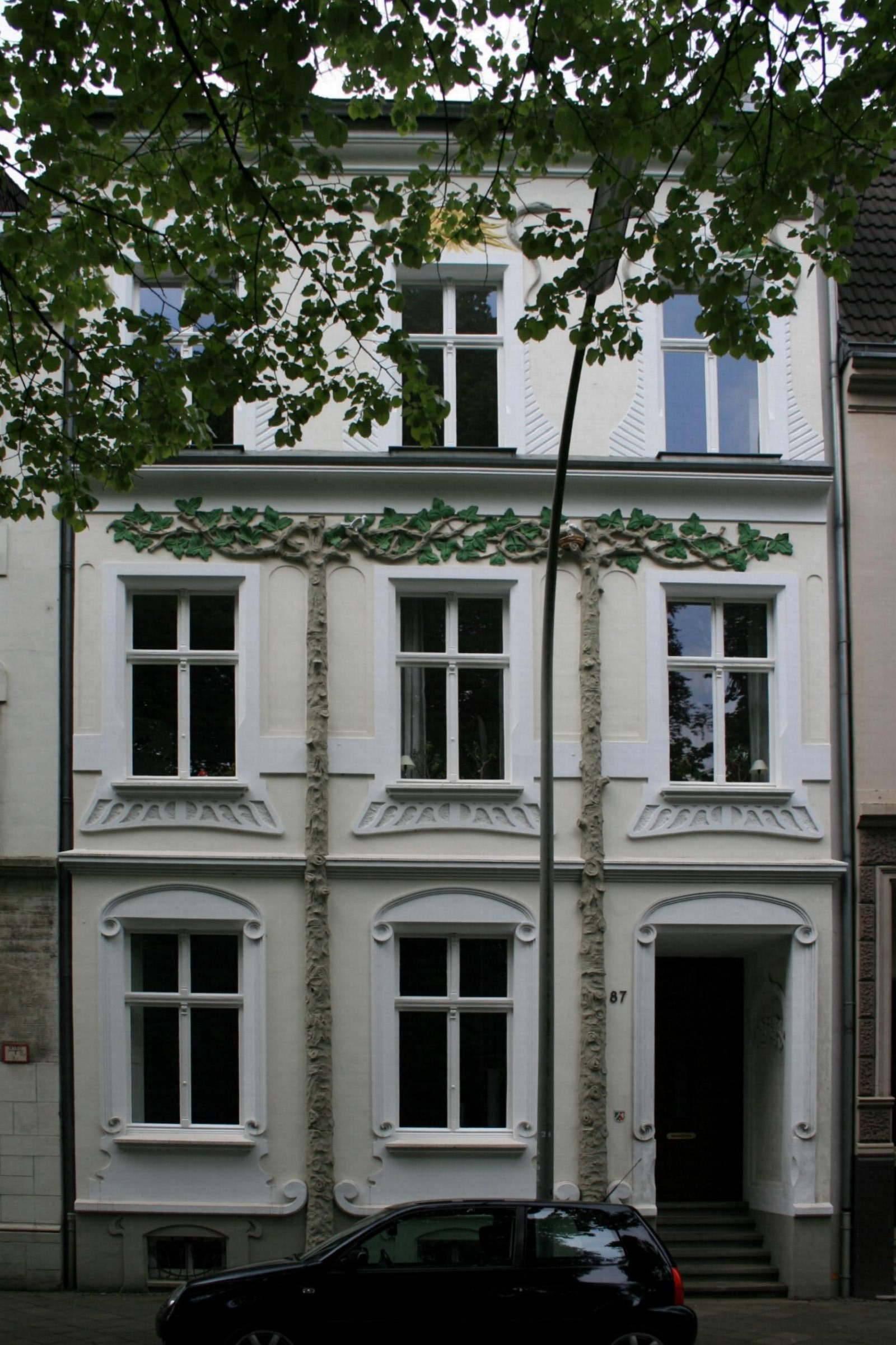 Cultural heritage monument No. B 048 in Mönchengladbach